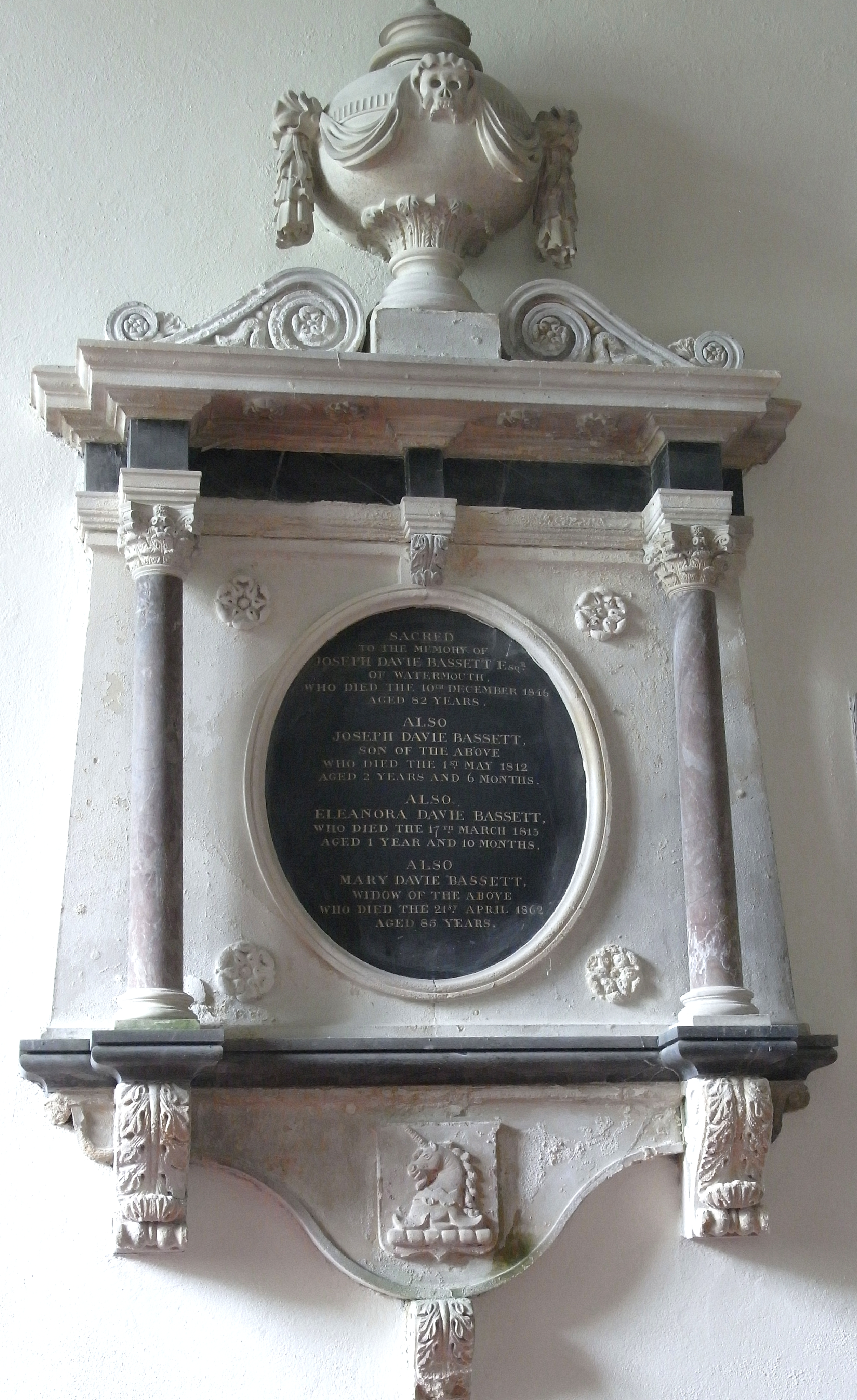 Mural monument to Joseph Davie Bassett (1764-1846) builder of Watermouth Castle. Berrynarbor Church, east end of south aisle wall